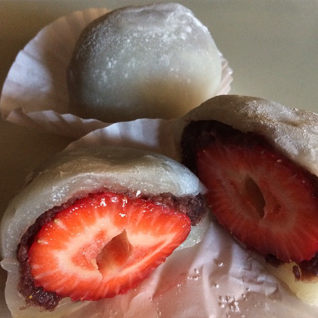 Made in Hawaii Foods' Fresh Strawberry Mochi